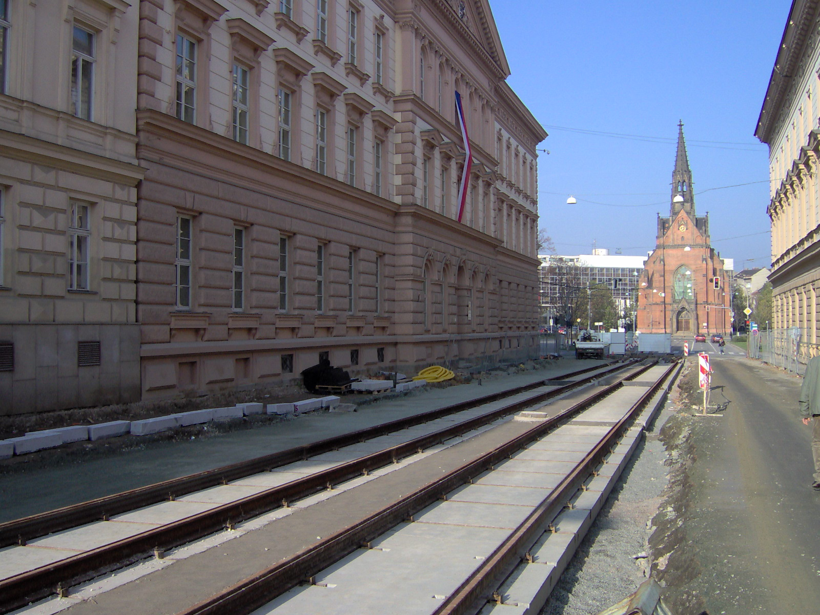 Tram track under reconstruction in Husova street, Brno, Czech Republic